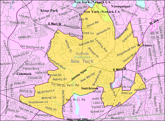 U.S. Census 2000 reference map for Smithtown